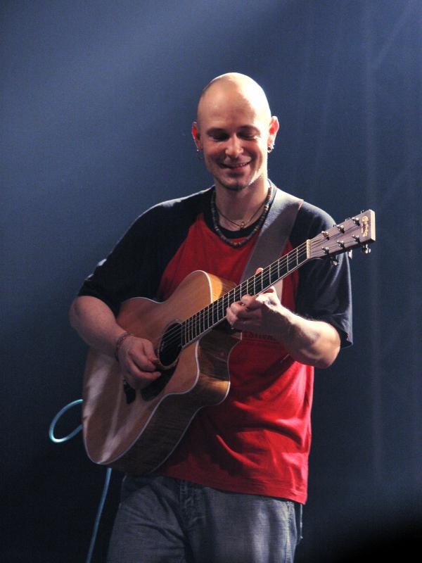 Alessandro "Finaz" Finazzo in concert with Bandabardò in Bologna - Ottavio winter tour